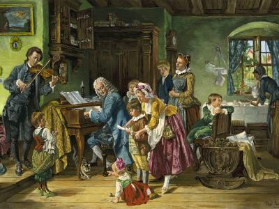 Johann Sebastian Bach im Kreise seiner Familie